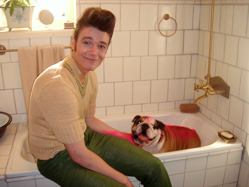 Maxim Matveev with English Bulldog Filya (production of "Stilyagi")